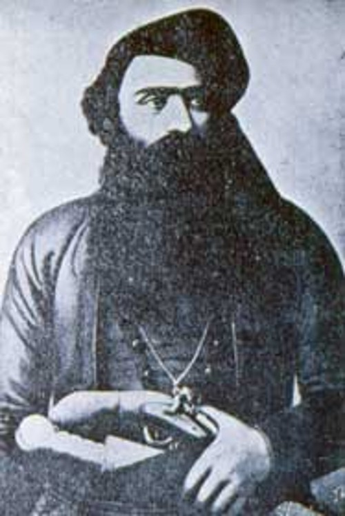 Yannaris Hatzimichalis (1815-1916), one of the main leaders of the cretan revolts during the 19th century